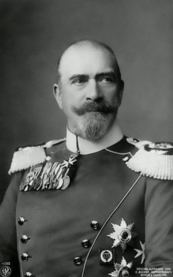 Portrait of Adolf Friedrich V, Grand Duke of Mecklenburg-Strelitz (1848-1914)